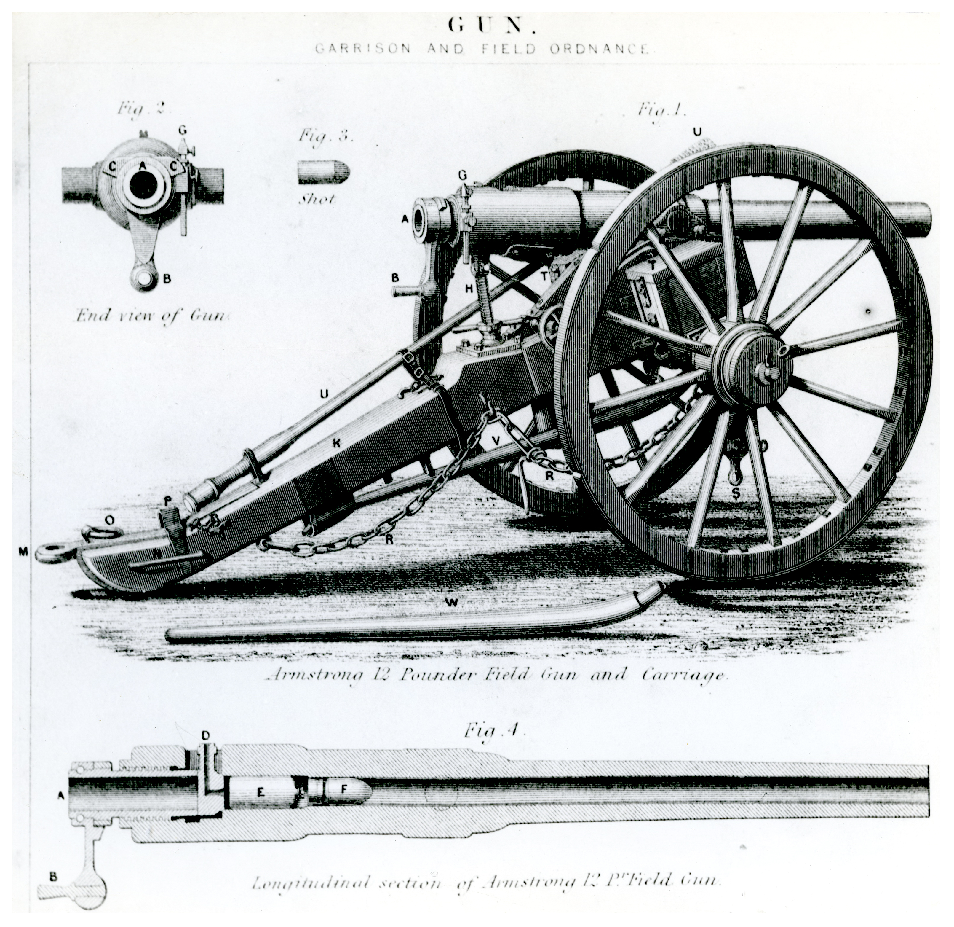 Drawing of the Armstrong 12 Pounder Field Gun. This weapon was used by the British during the New Zealand Land Wars, especially in Waikato and at the Battle of Rangiriri ( Archives Reference: AAME W5603 Box 118/ 11/17/110 Material from Archives New Zealand